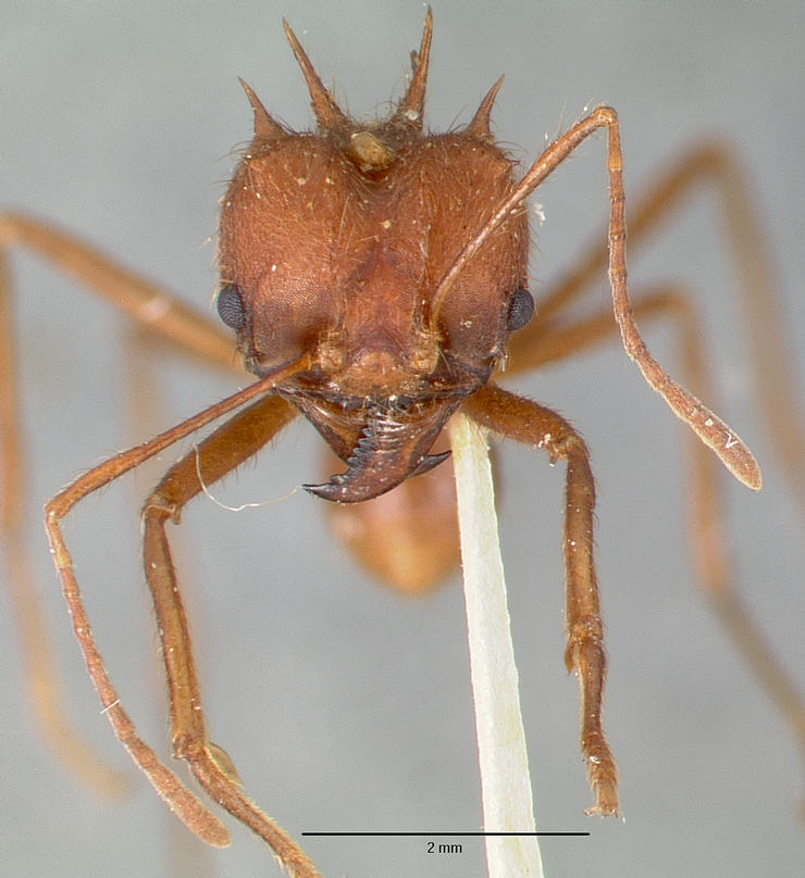 Head view of ant Atta texana specimen casent0006046.